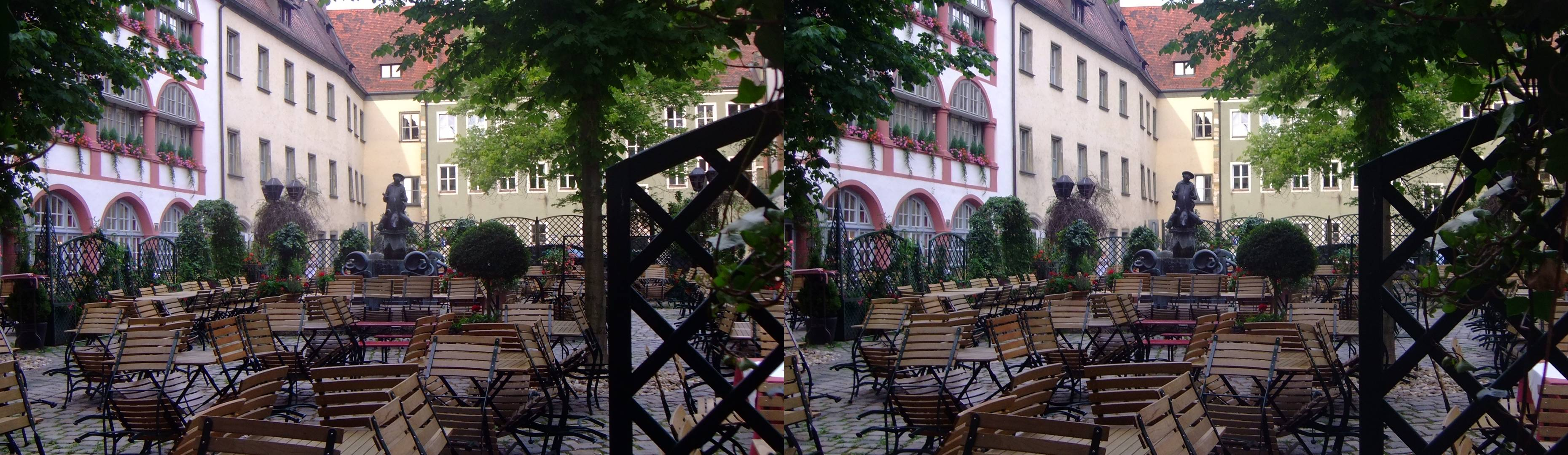 An example of a stereographic .JPS image (containing two images, one for each eye) when displayed using a normal (2D) image viewer.